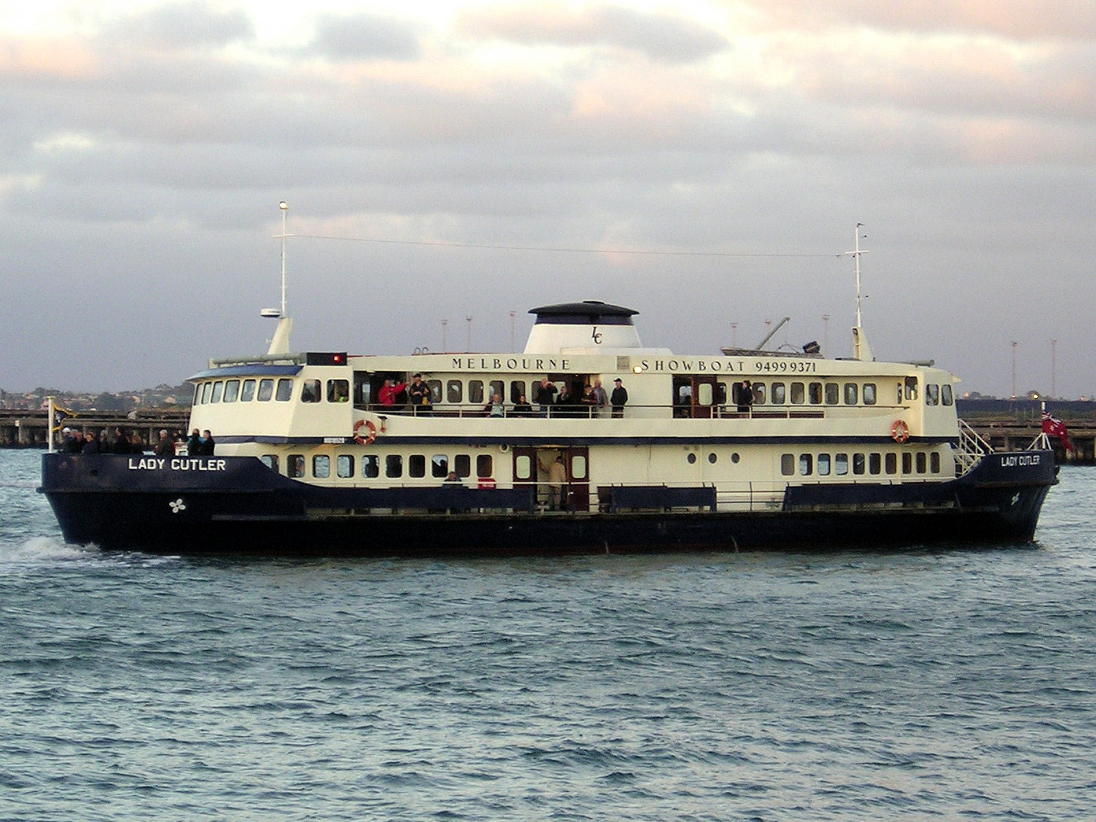 Former Sydney Harbour ferry Lady Cutler at Station Pier, Melbourne.